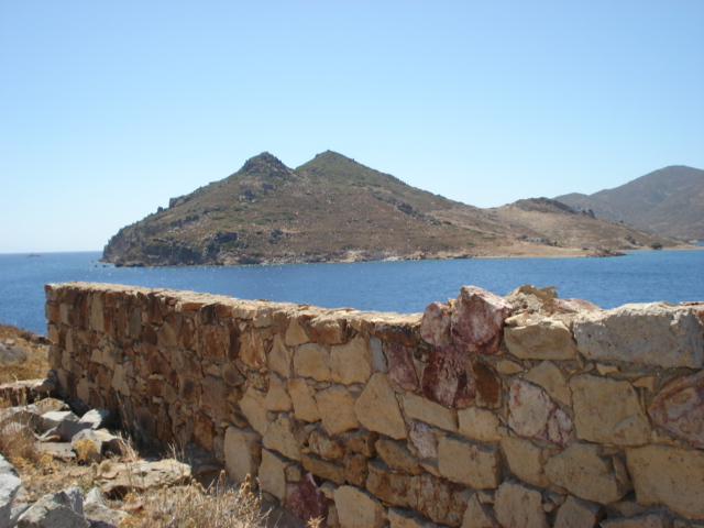 Tragonisi island, Grikos Bay, Patmos, Dodecanese, Greece